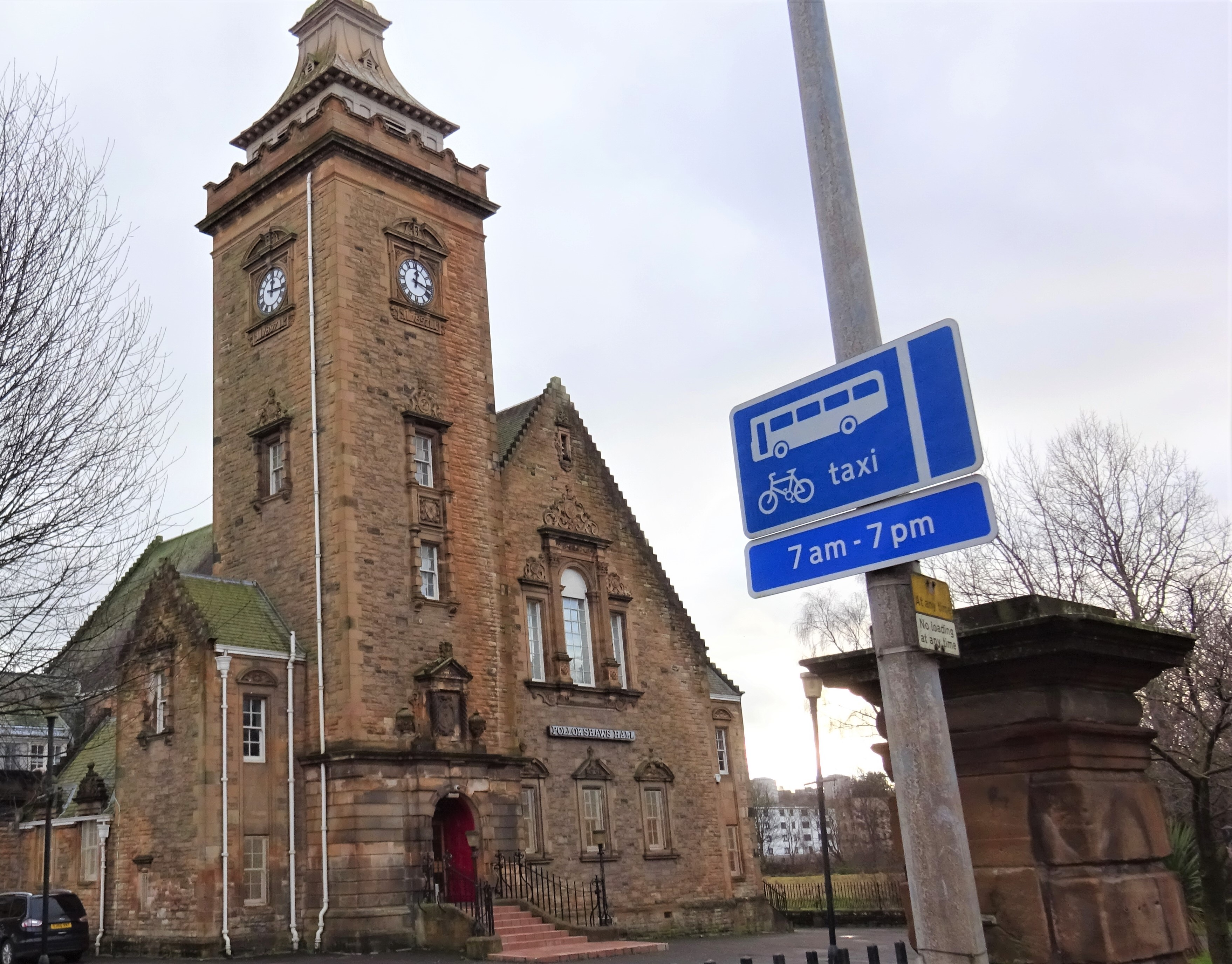 Burgh Hall, Pollokshaws, Glasgow. View from Pollokshaws Road. Built to replicate features found in the demolished Glasgow College buildings, especially the tower.